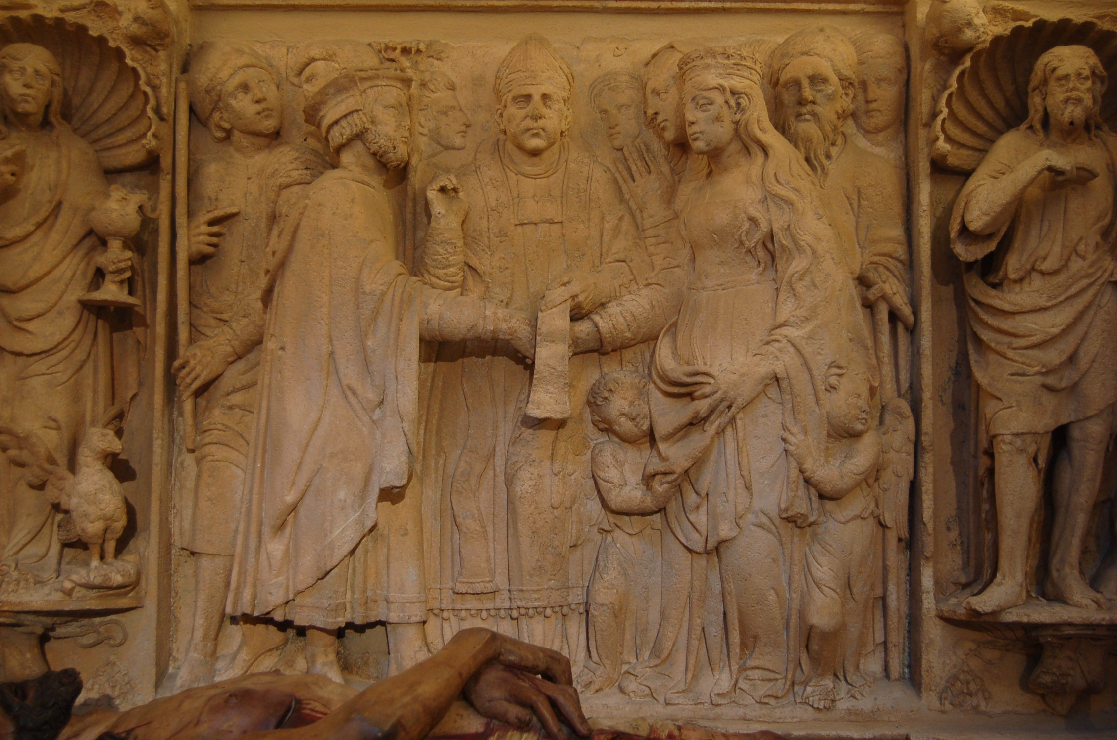 Wedding scene in Burgos Cathedral.